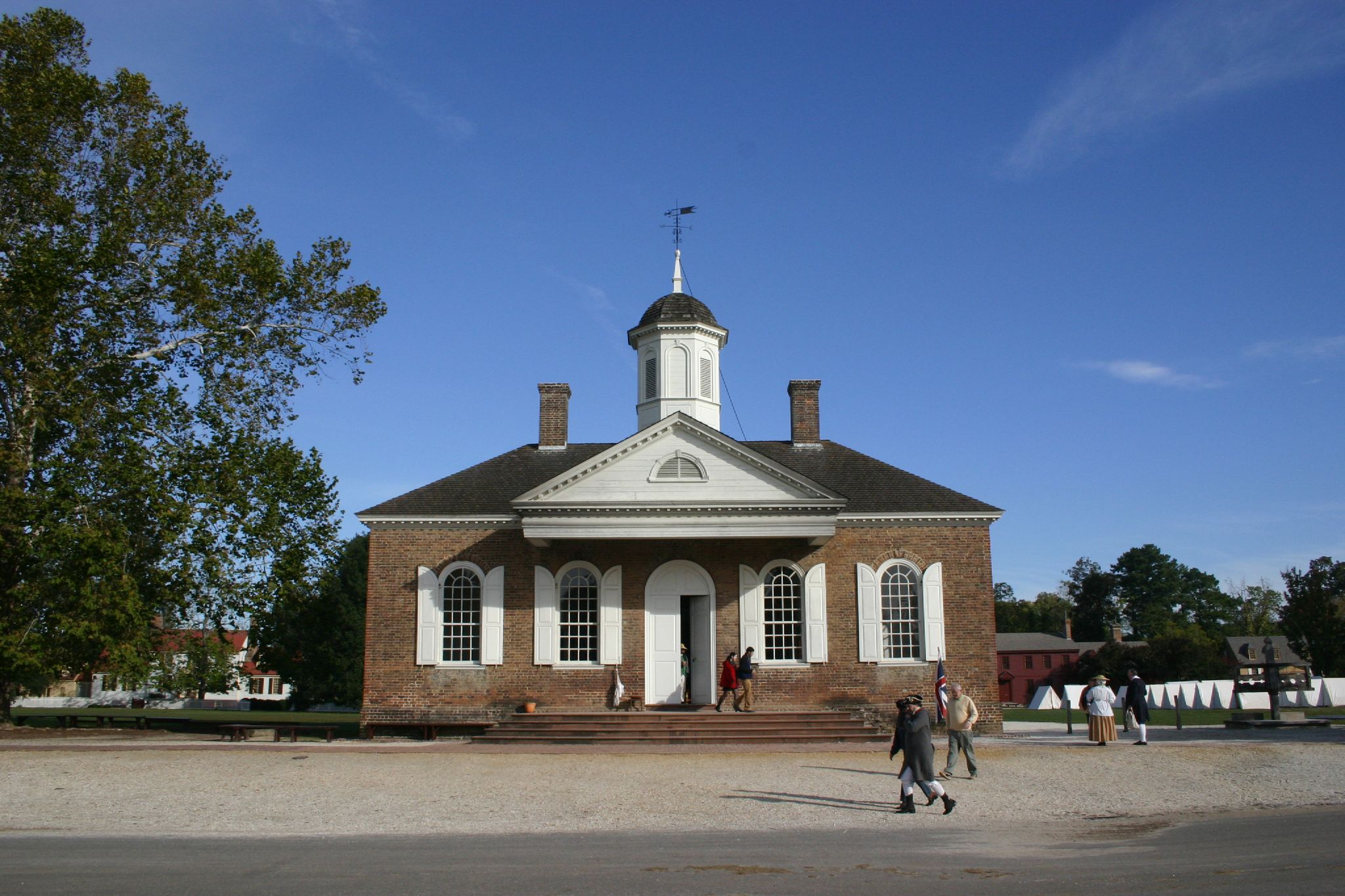 Court House, Williamsburg, Virginia, USAThe courthouse